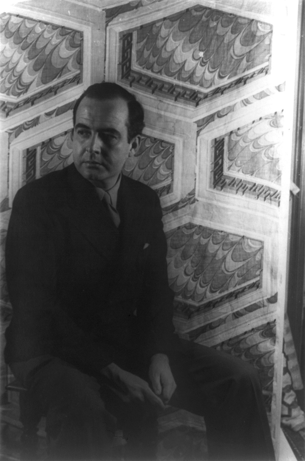 Portrait of Samuel Barber